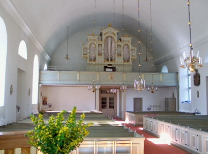 Väderstads Church.Organ.